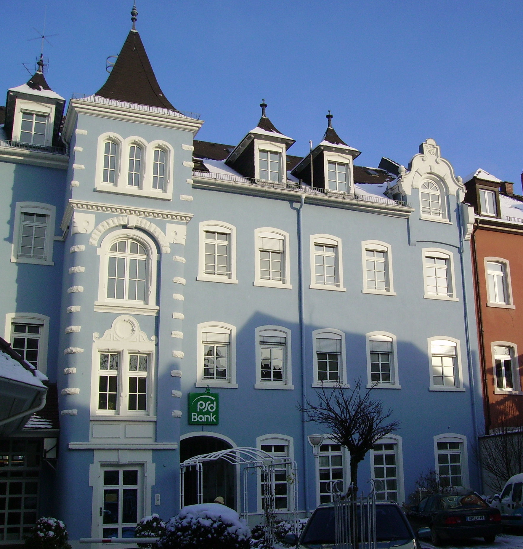 Description: bank building in Speyer, Germany Source: own photography Date: December 2005 Author: --Immanuel Giel 09:13, 2 January 2006 (UTC) Other versions: none